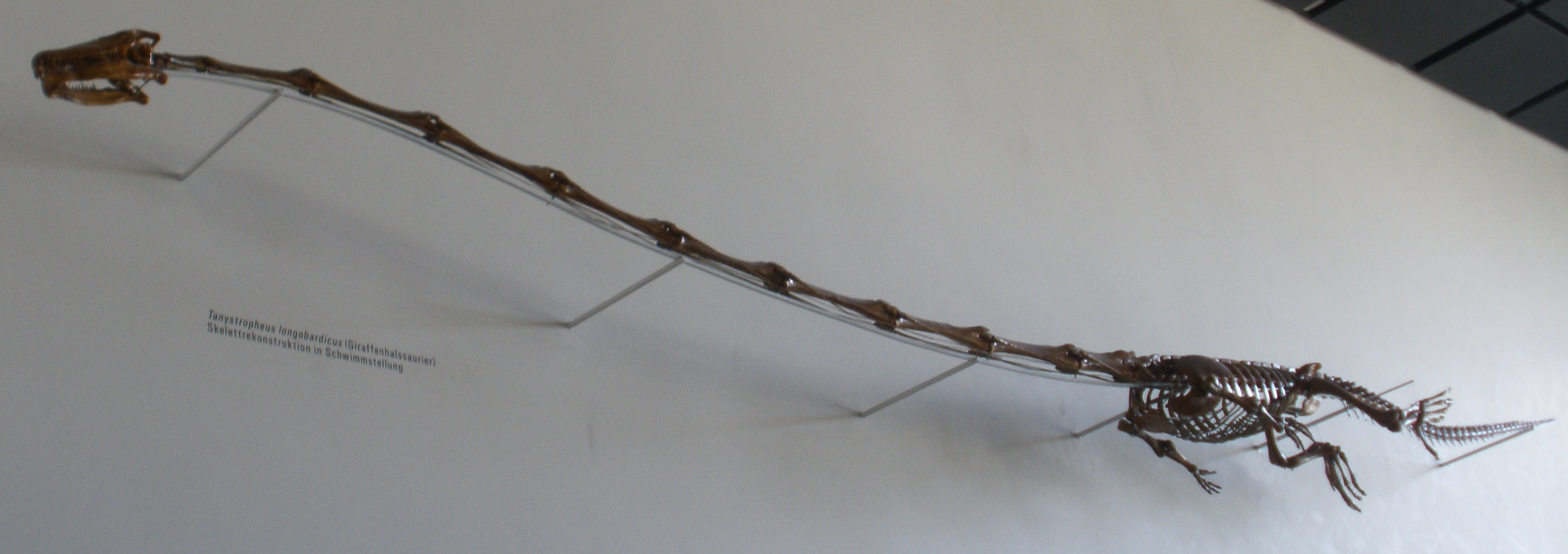 fossil Tanystropheus